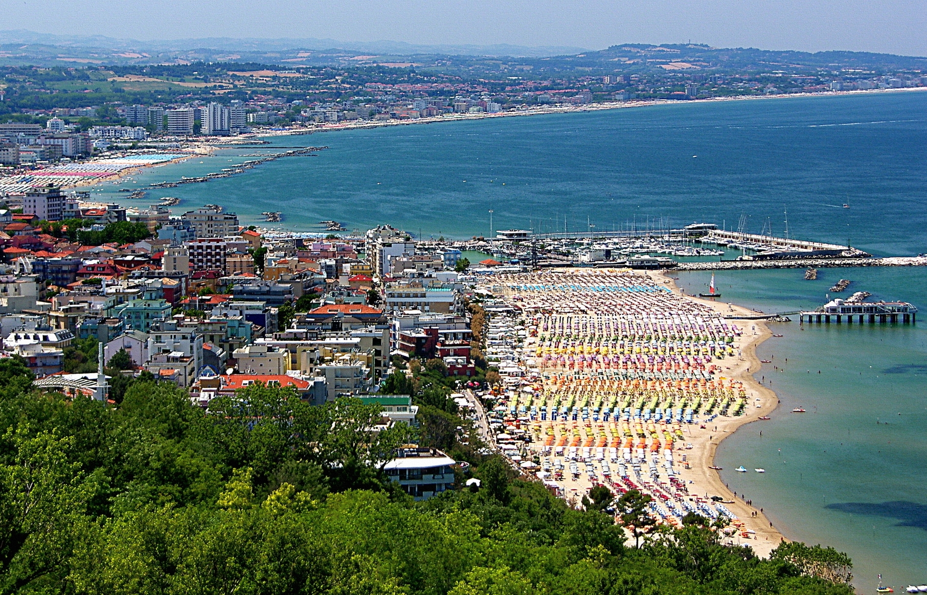 Gabicce Mare view from Gabicce Monte